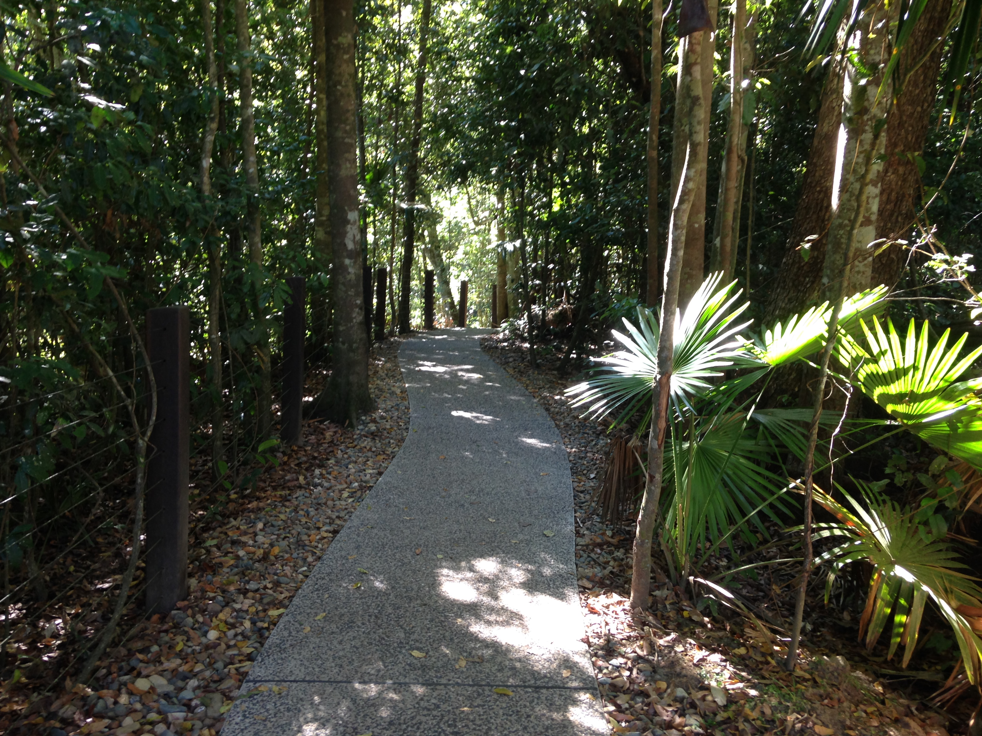 There are many well maintained paths in Eungella National Park